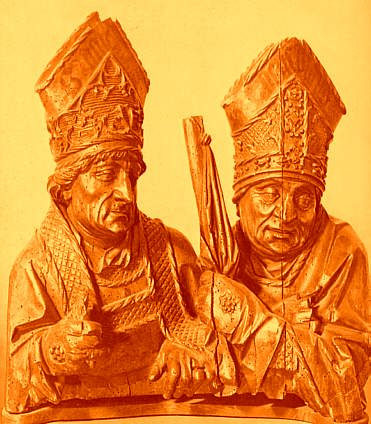 Veit Wagner_Two bishops